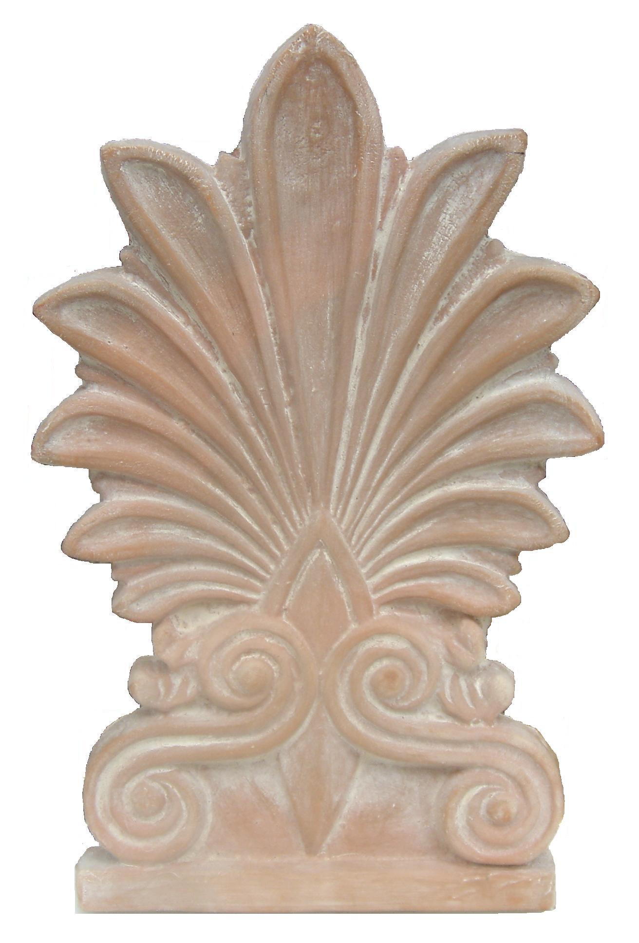 The type of palmette commonly found as an acroterion